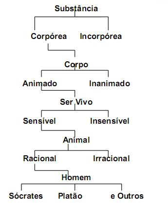 Tree of Porphyry